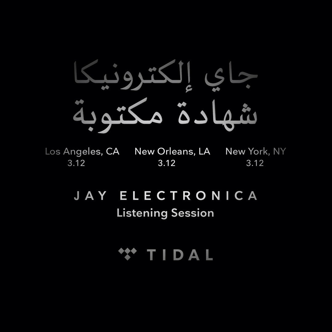 Poster for March 12, 2020 listening parties hosted by Tidal to promote Jay Electronica's debut album A Written Testimony (2020).